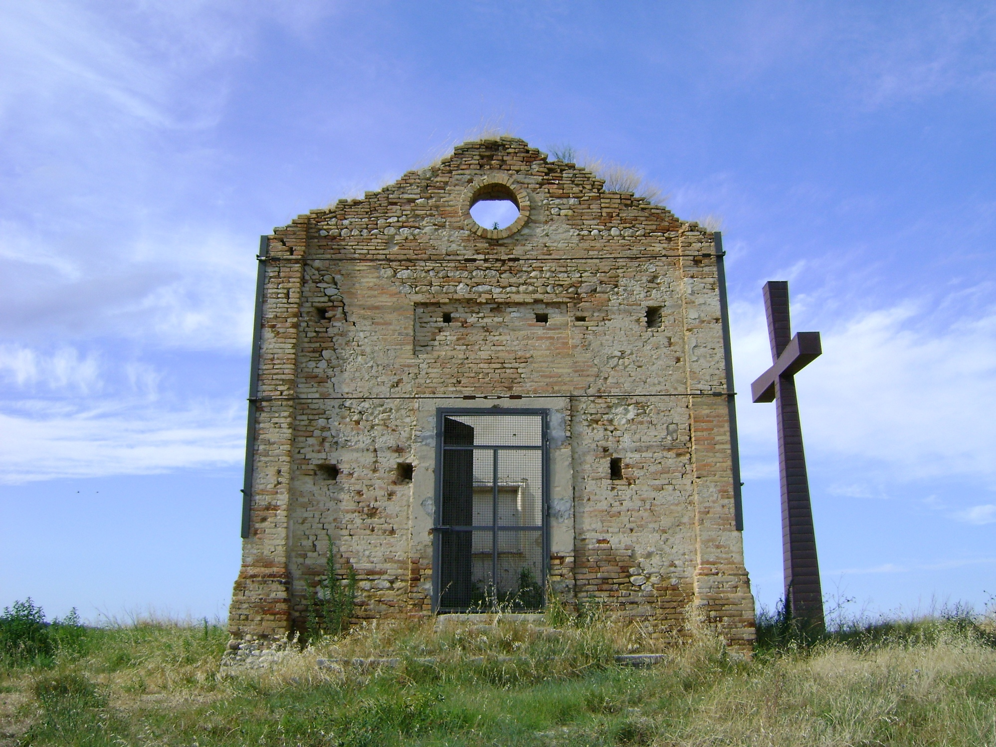 The facade of the church of S. Onofrio, now in ruins, Lanciano, province of Chieti, Abruzzo